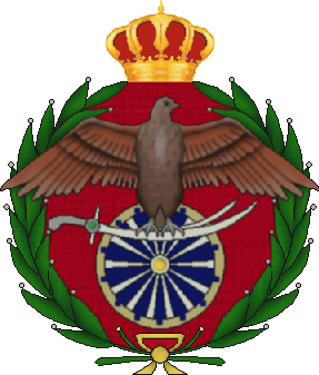 Royal Jordanian Special Operations Command Logo (SOCOM)